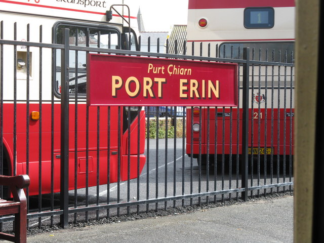 The Isle of Man Transport bus depot in Port Erin, Isle of Man, as viewed from the platform side of the fence at Port Erin railway station, the southern terminus of the Isle of Man Steam Railway. The depot is situated on a former platform area. The rear of IoMT bus 21 (reg. HMN 246J) is visible, a 2006 Dennis Trident 2 double-decker with East Lancs Myllennium Lolyne bodywork.